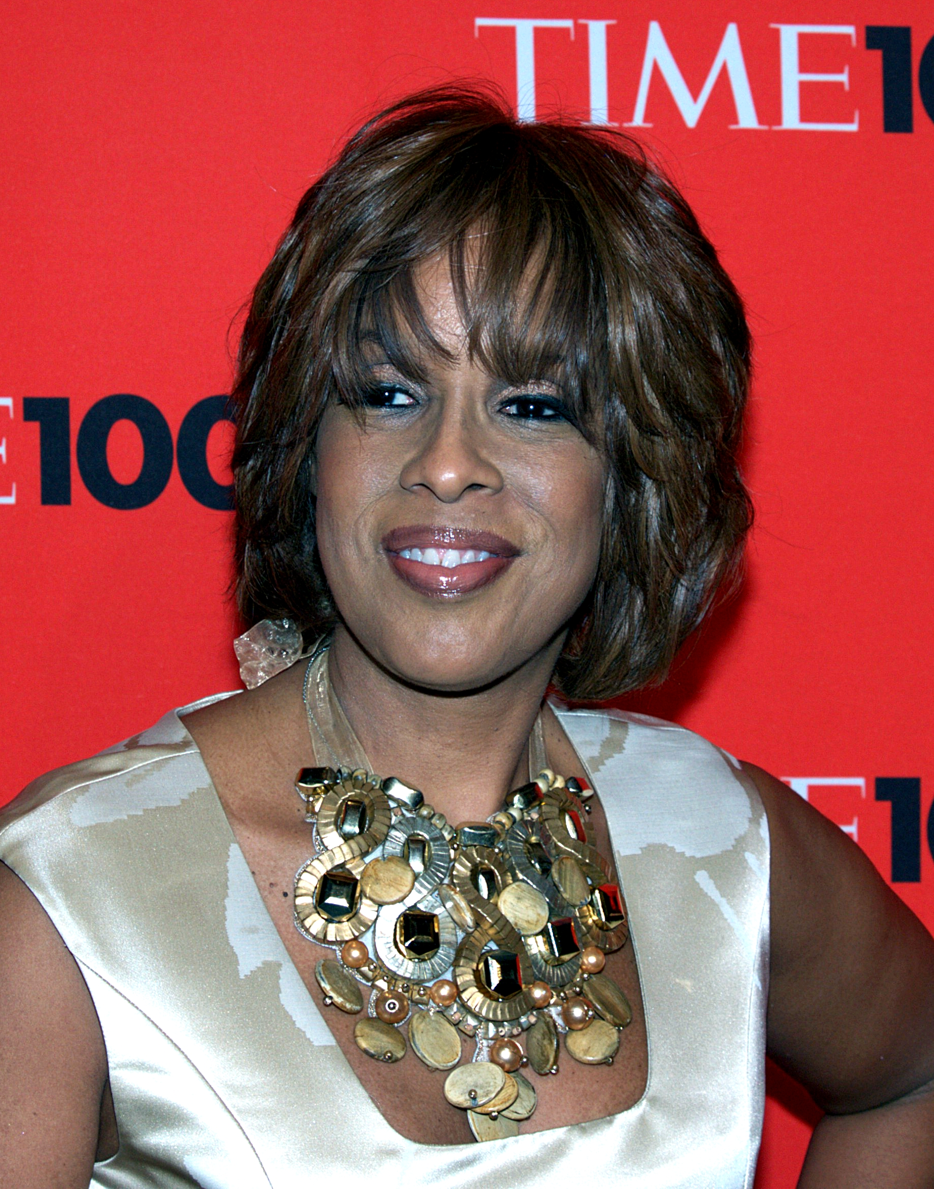 Gayle King at the 2010 Time 100.